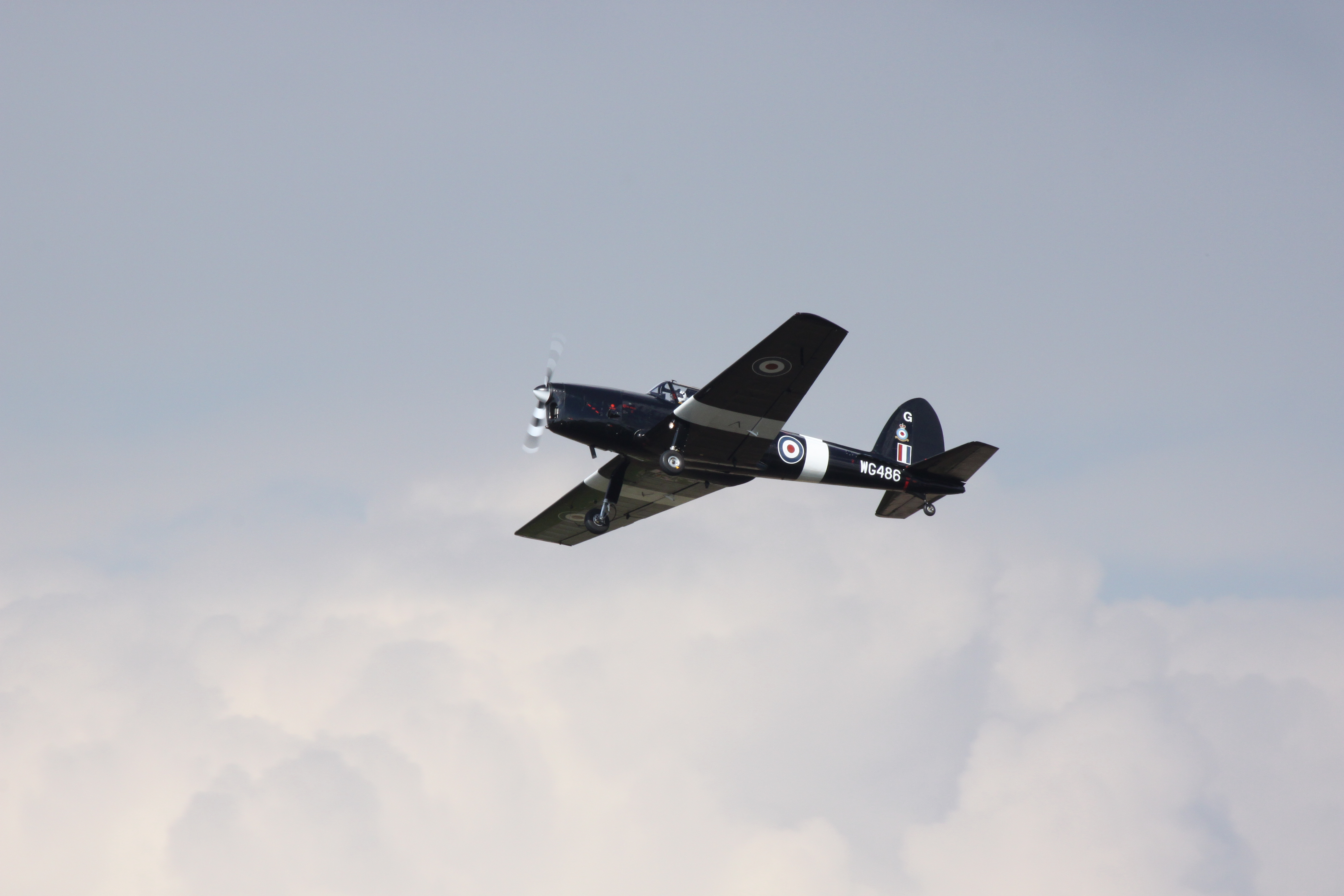 As well as the more glamorous Spitfires, Hurricanes and of course Lancaster, the Battle of Britain Memorial Flight at RAF Coningsby operates some tail draggers to familiarise pilots more familiar with today's Typhoons and Tornados. The Chipmunk is one of those types. The Lancaster types get a C-47 to practice with.